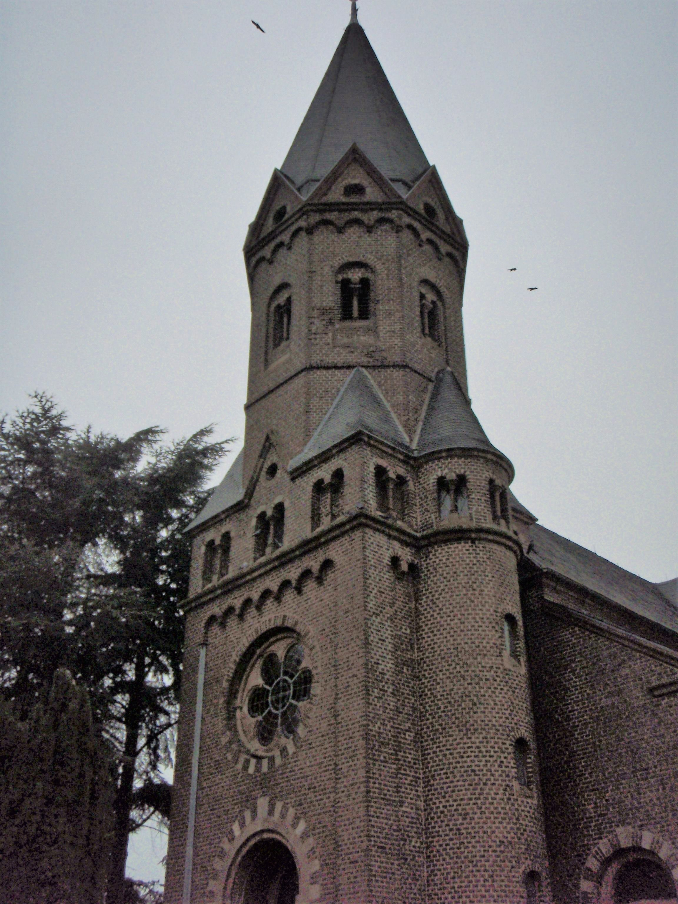 Church St. Pankratius of Floisdorf